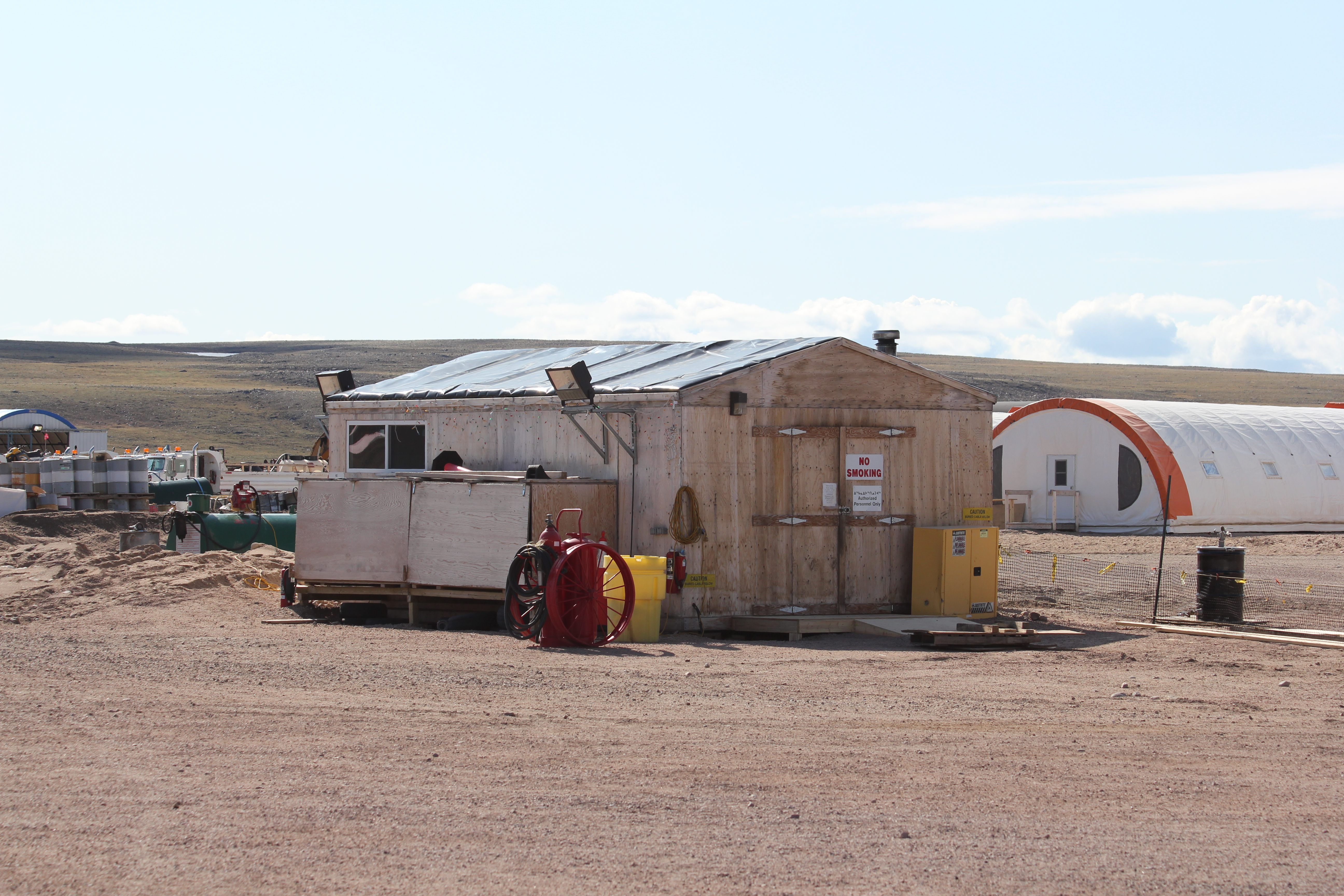 looking towards the east